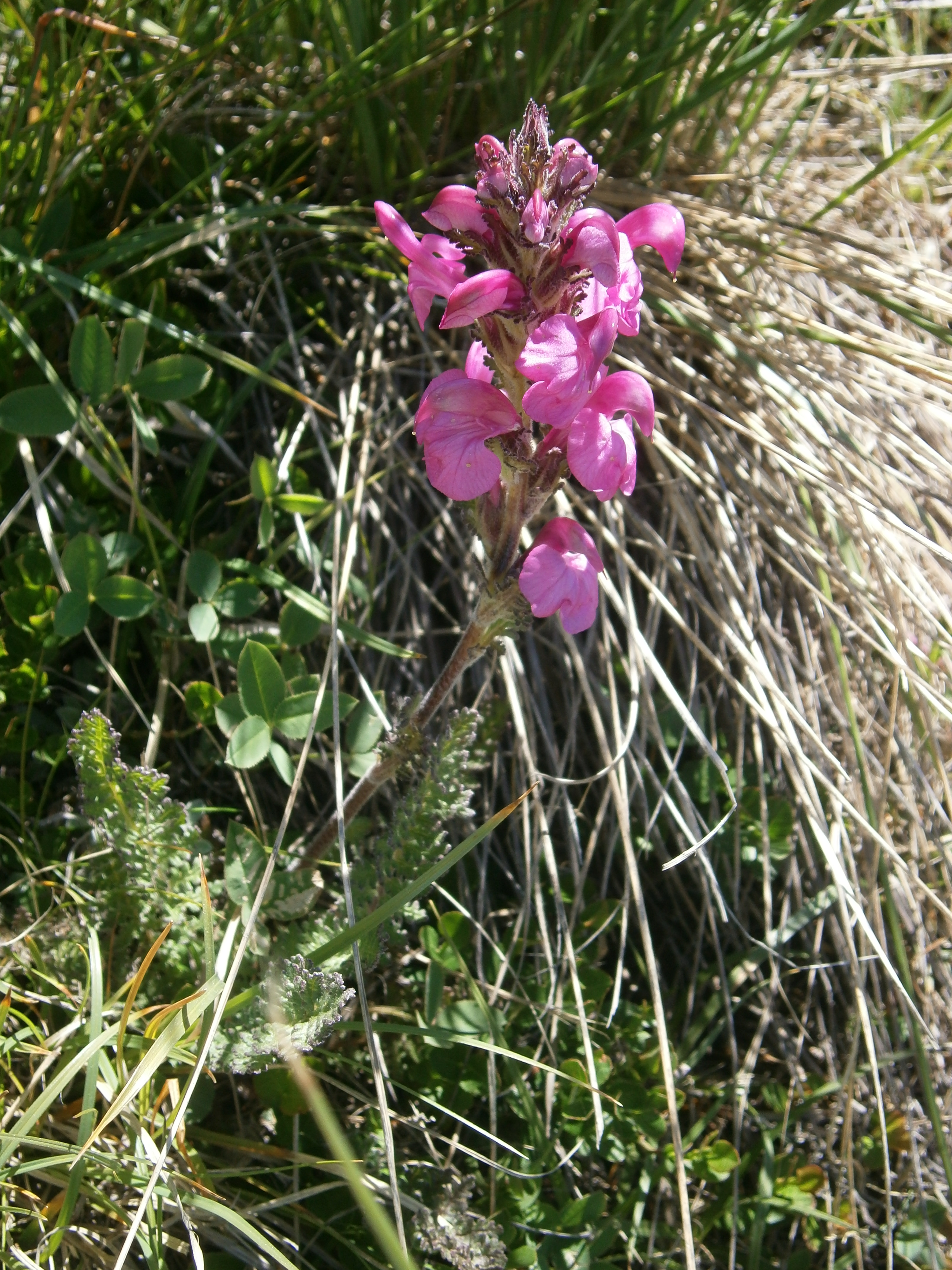 Pedicularis gyroflexa